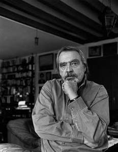 Alain Tanner